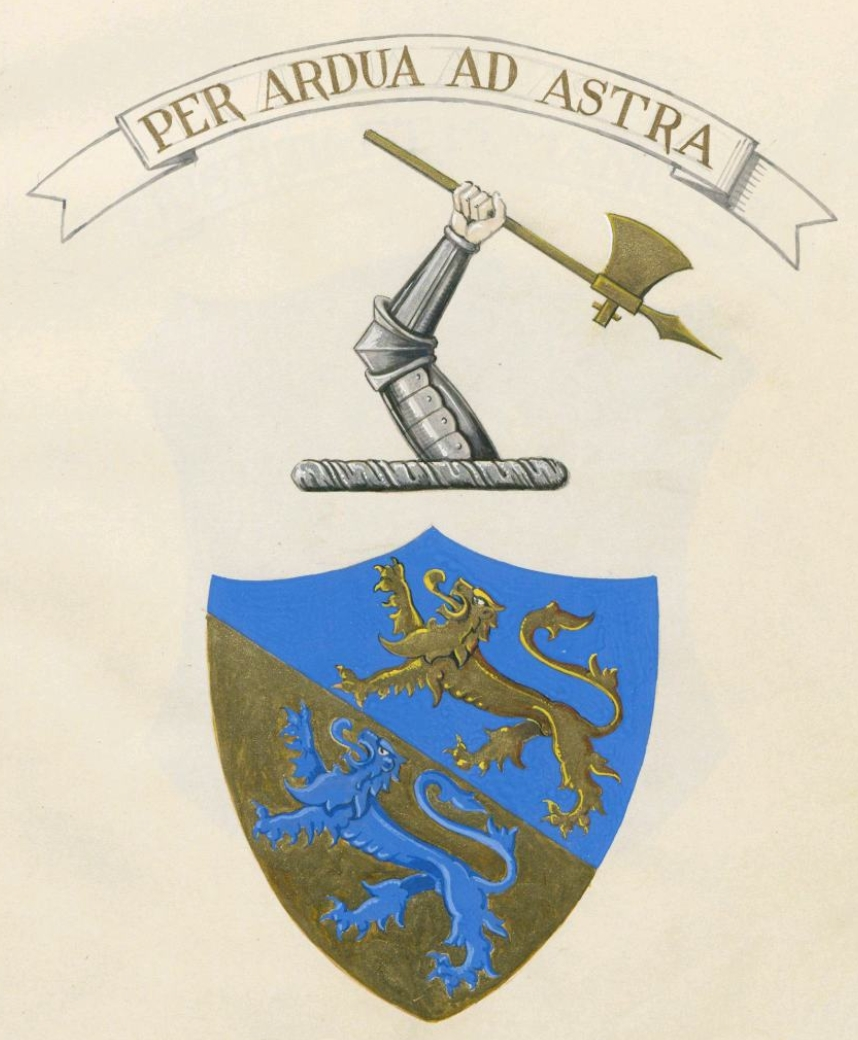 Armando Figueira Trompowsky de Almeida coat of arms